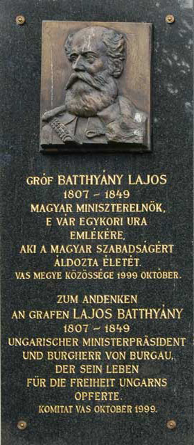 memorial plaque for Lajos Batthyany at Schloss Burgau near river Lafnitz in Styria, Austria